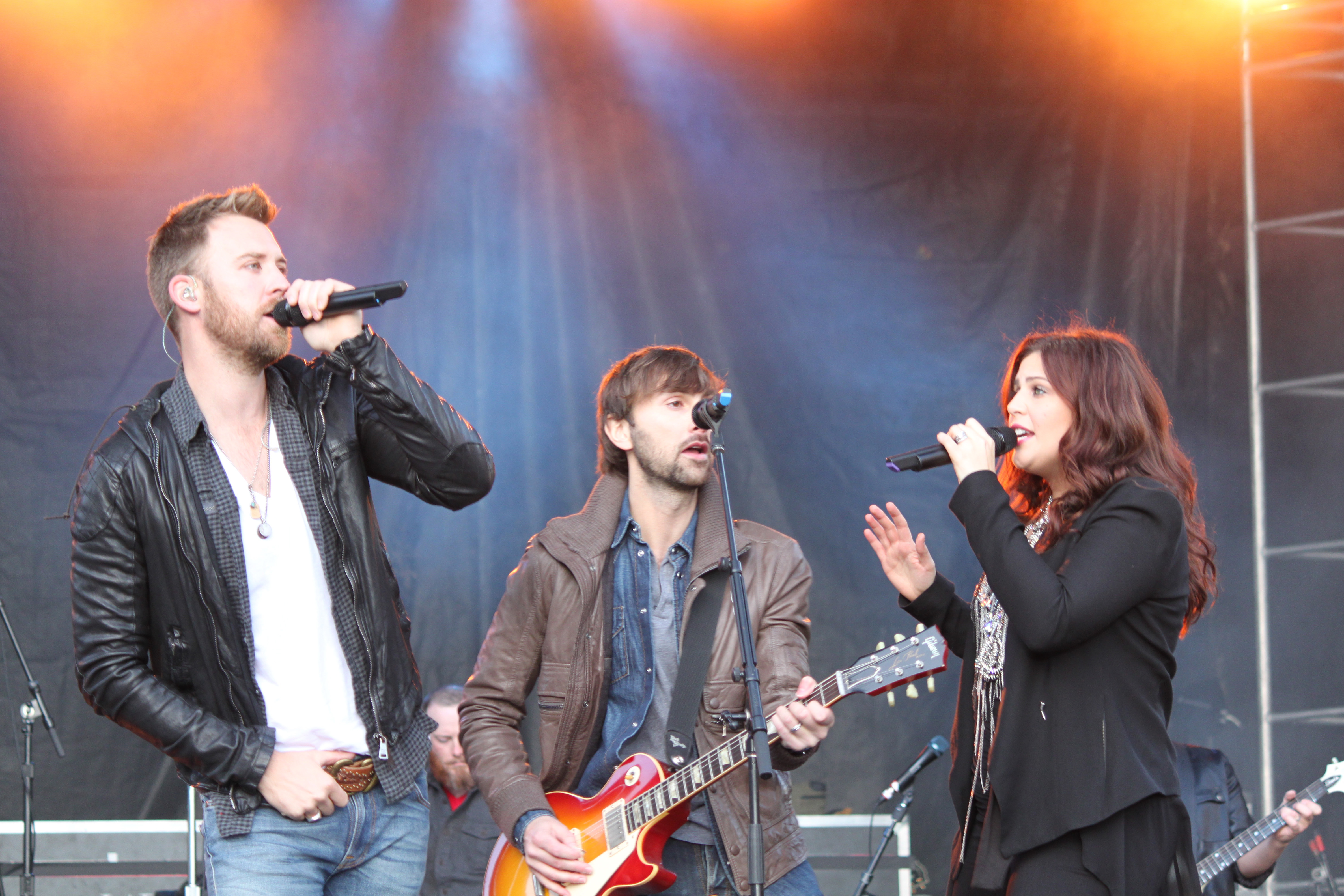 Lady Antebellum play in Charlotte